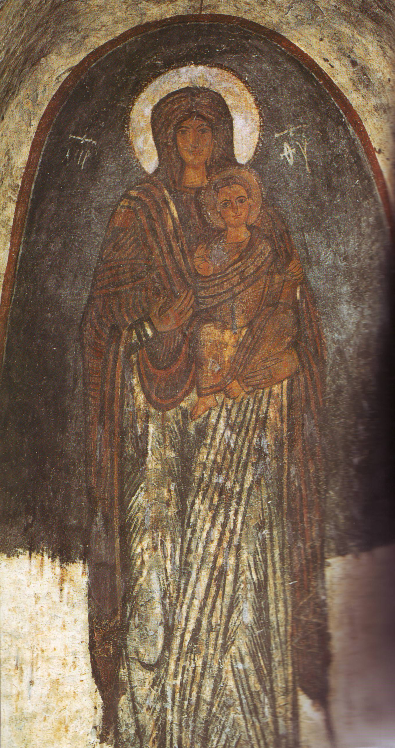 Smiling Mary. Fresco in Gumusler Monastery, Nigde, Cappadocia